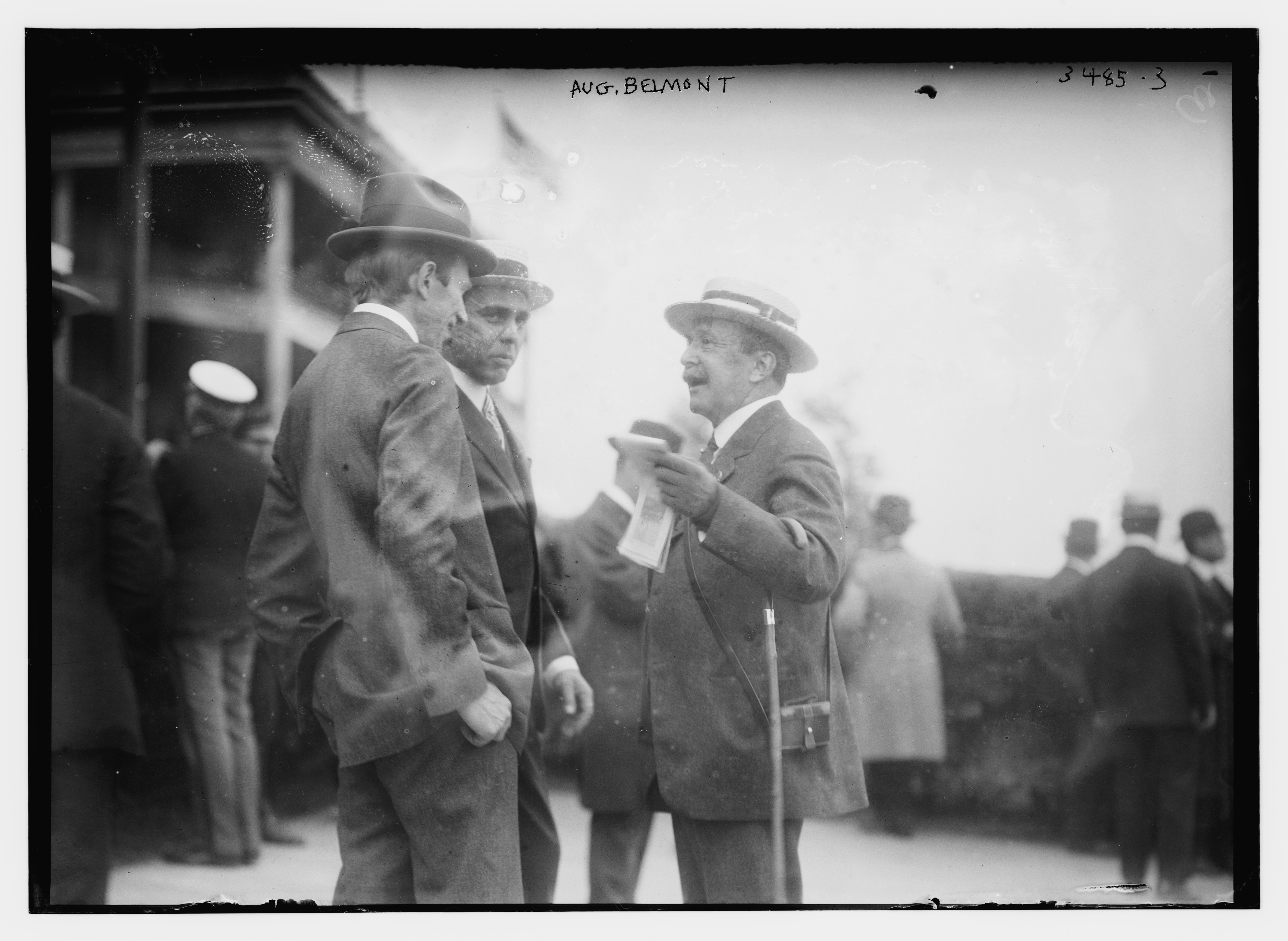 Title: Aug. Belmont Abstract/medium: 1 negative : glass ; 5 x 7 in. or smaller.